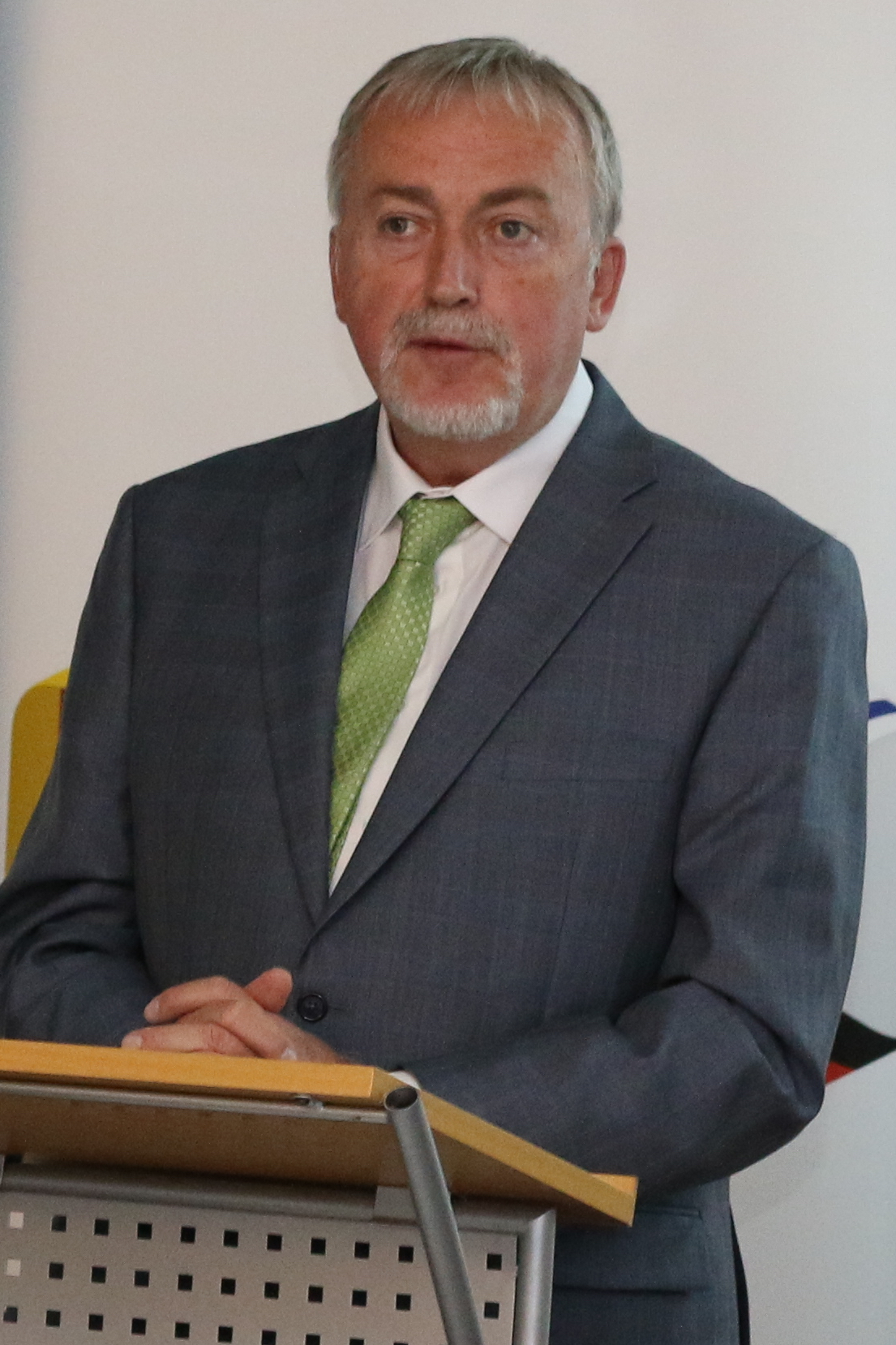 Prof. Dr. Wolfgang Wüst, Friedrich-Alexander-University Erlangen-Nürnberg